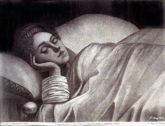 Carlo Naya (1822-1881) - "Carpaccio, V., Detail from the Dream of Saint Ursula (the head of the Saint). - Accademia, Venice". Catalogue # 553a.